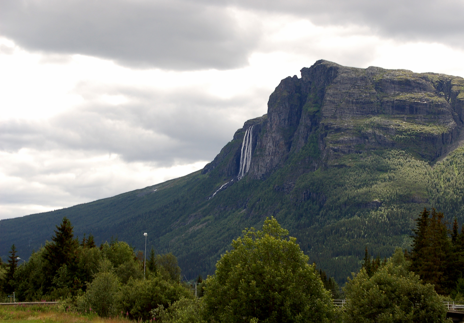 Hydnefossen in Hemsedal, Norway